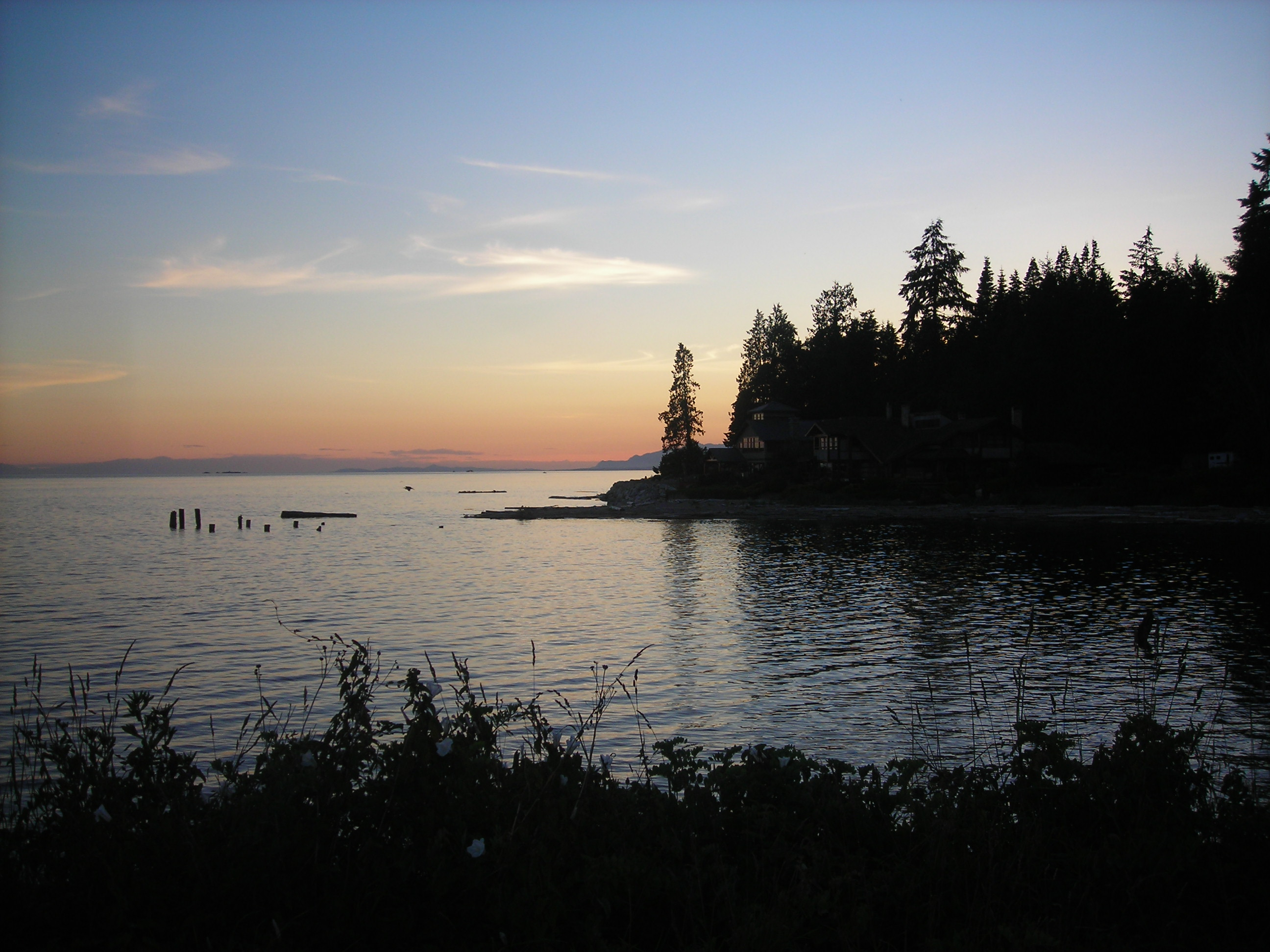 A view of the Georgia Strait from Roberts Creek, BC.